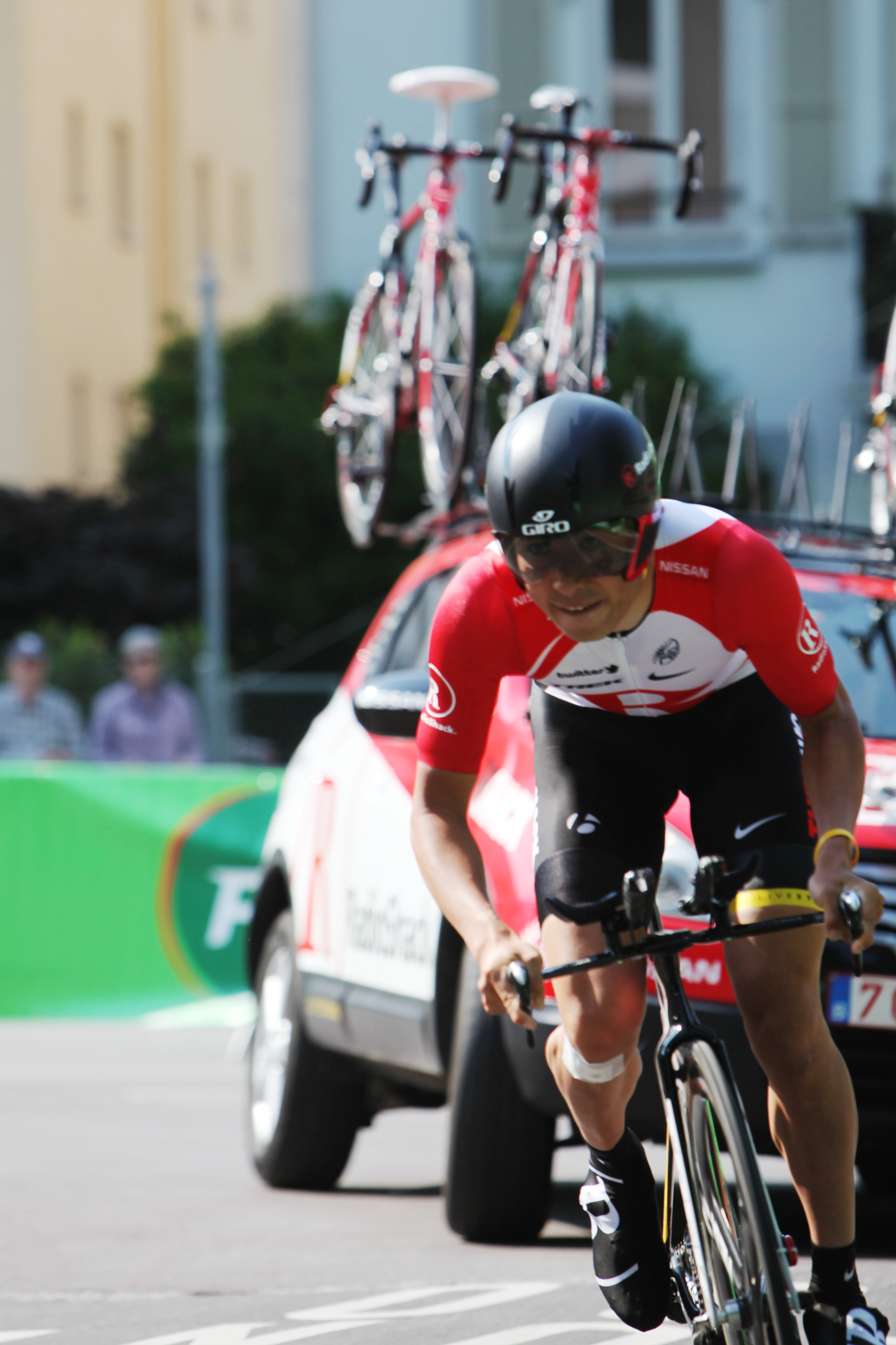 Fumiyuki Beppu at the prologue of the Tour de Romandie 2011